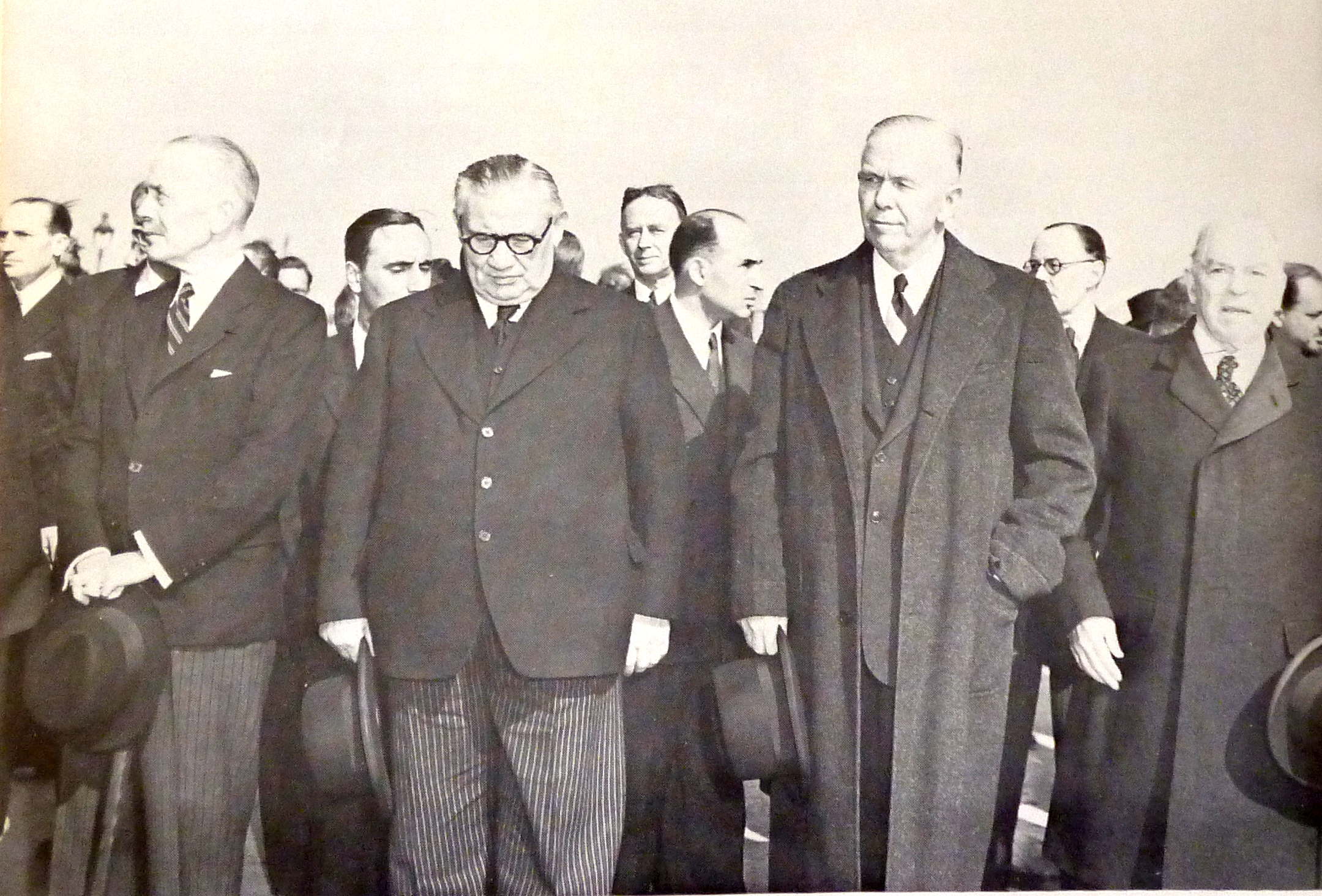 Count Folke Bernadotte's funeral - From right: Canadian Prime Minister McKenzie King, US Secretary of State George Marshall, British Foreign Secretary Ernest Bevin, British UN Ambassador Sir Alexander Cadogan.